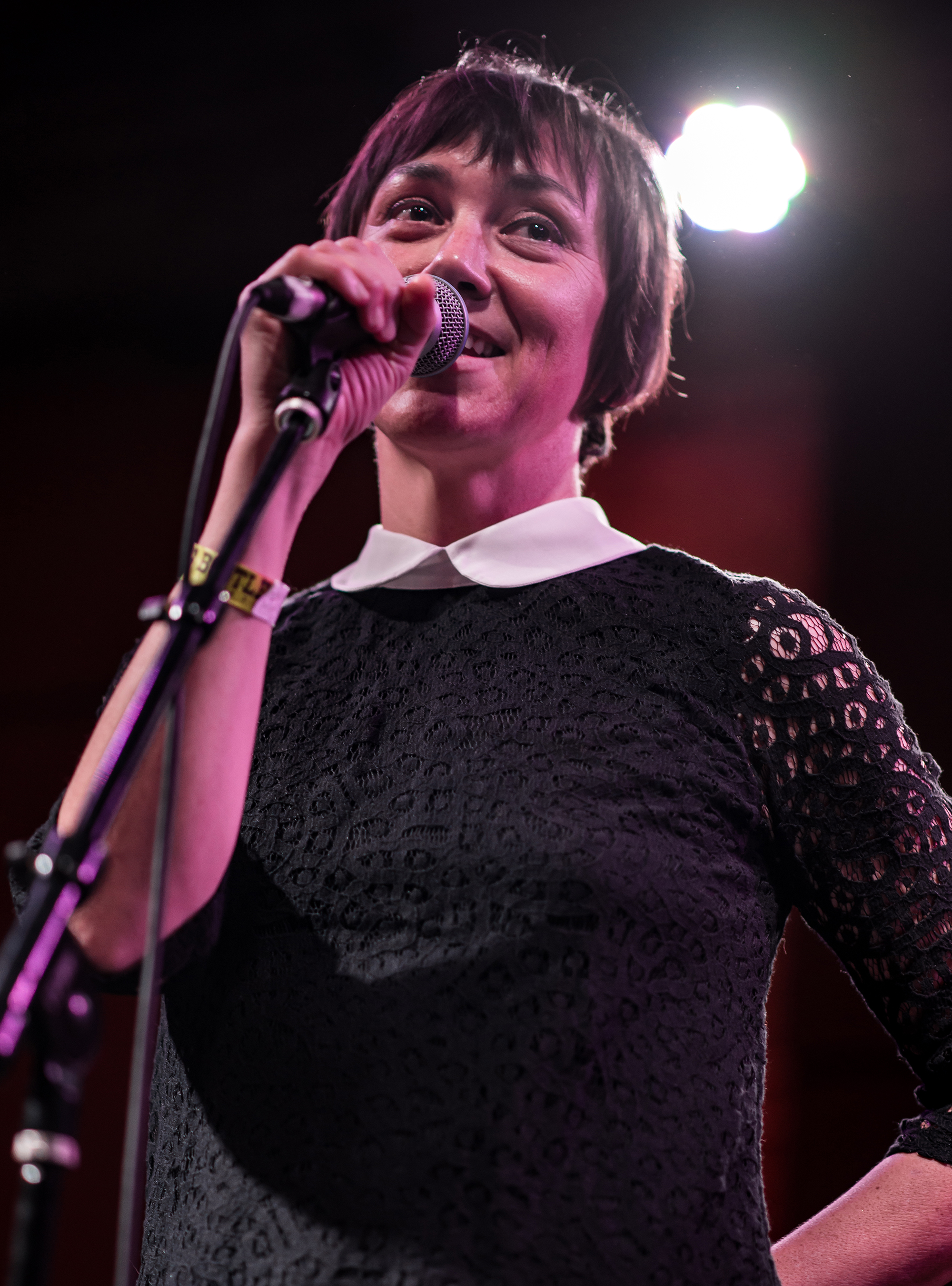 Inara George performing at the Eleni Mandell tribute in January 2017.